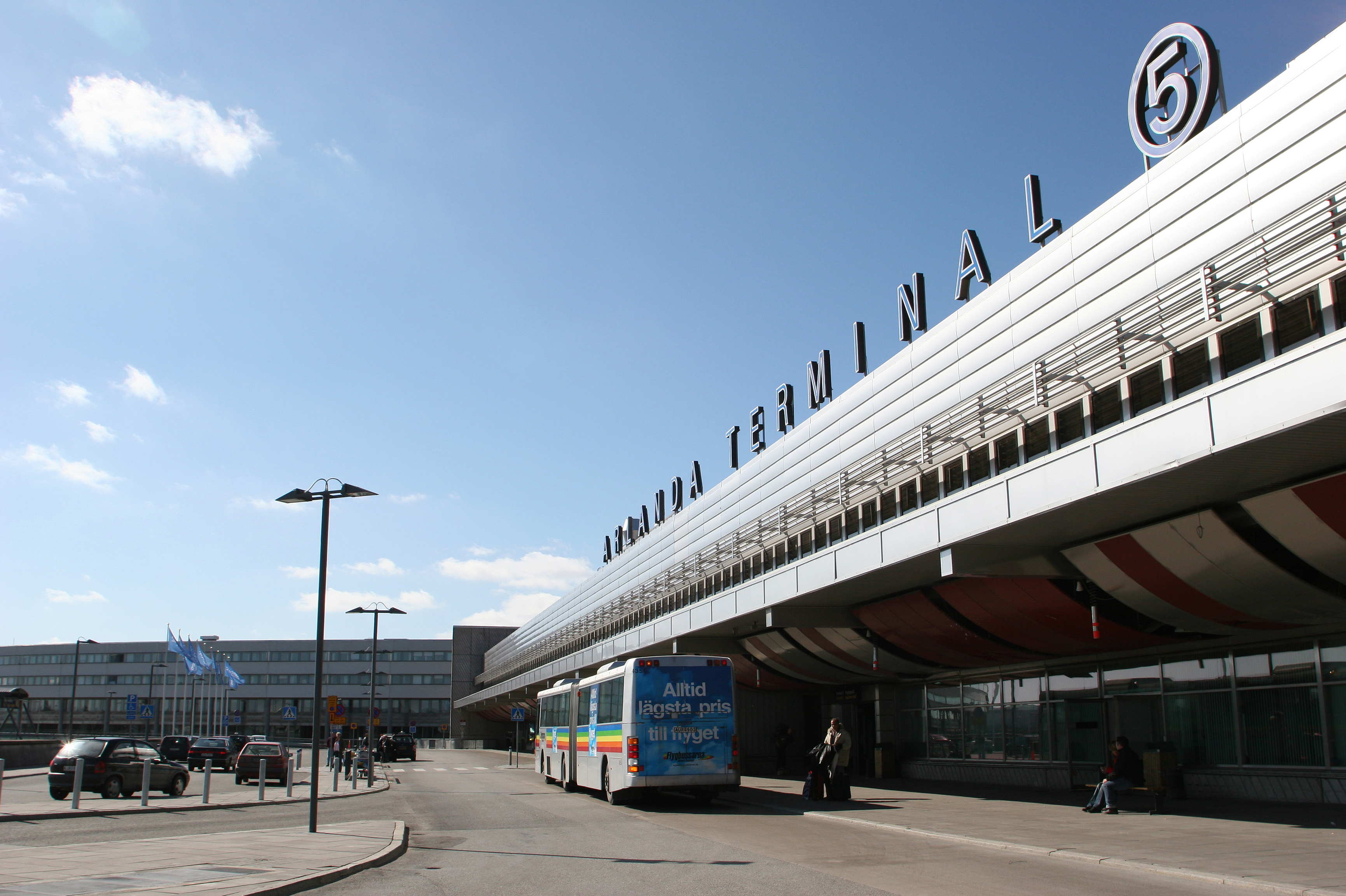 Stockholm Arlanda Airport entrance to terminal 5